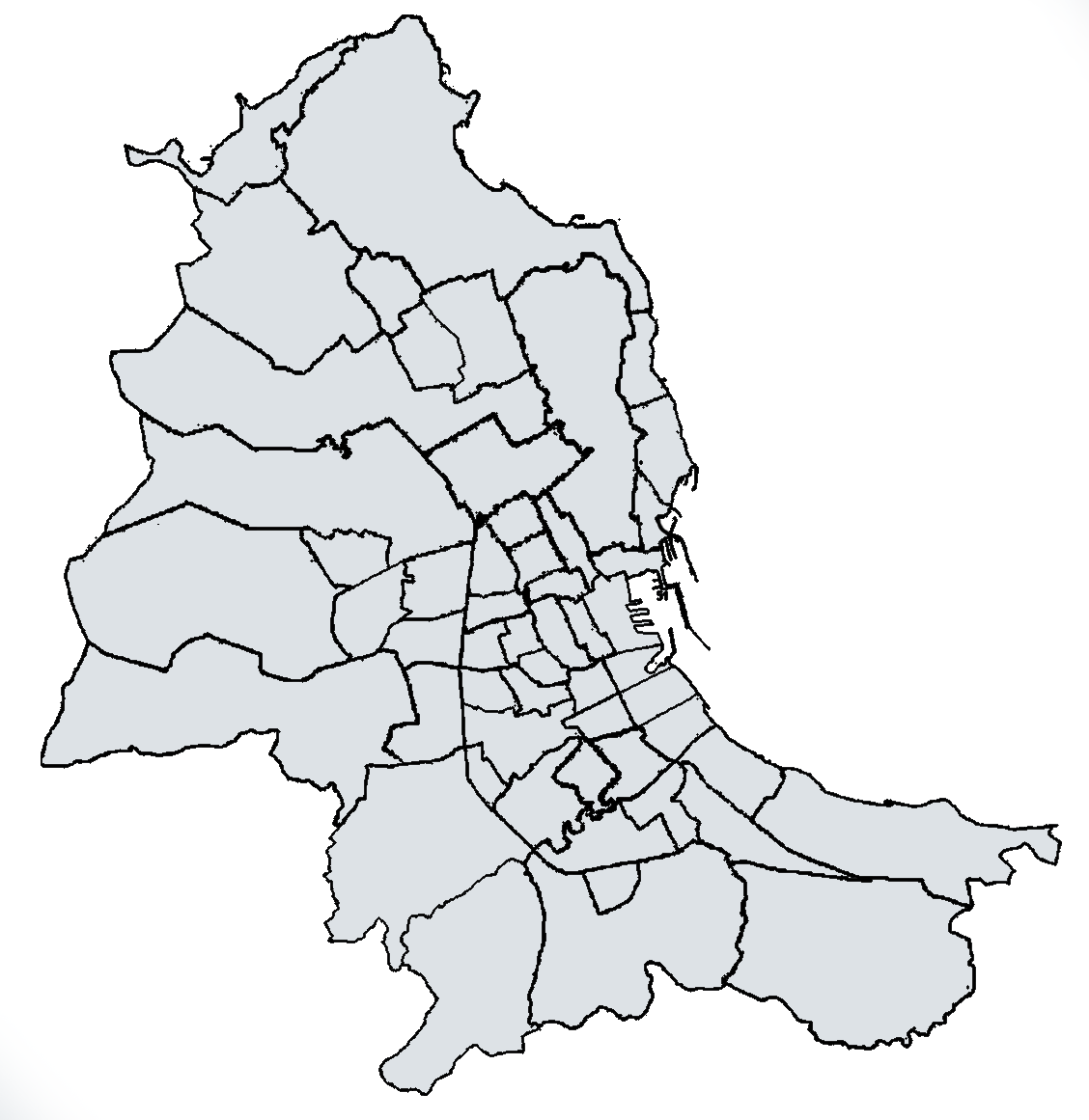 Map of the UPL (first level unit) of Palermo city.